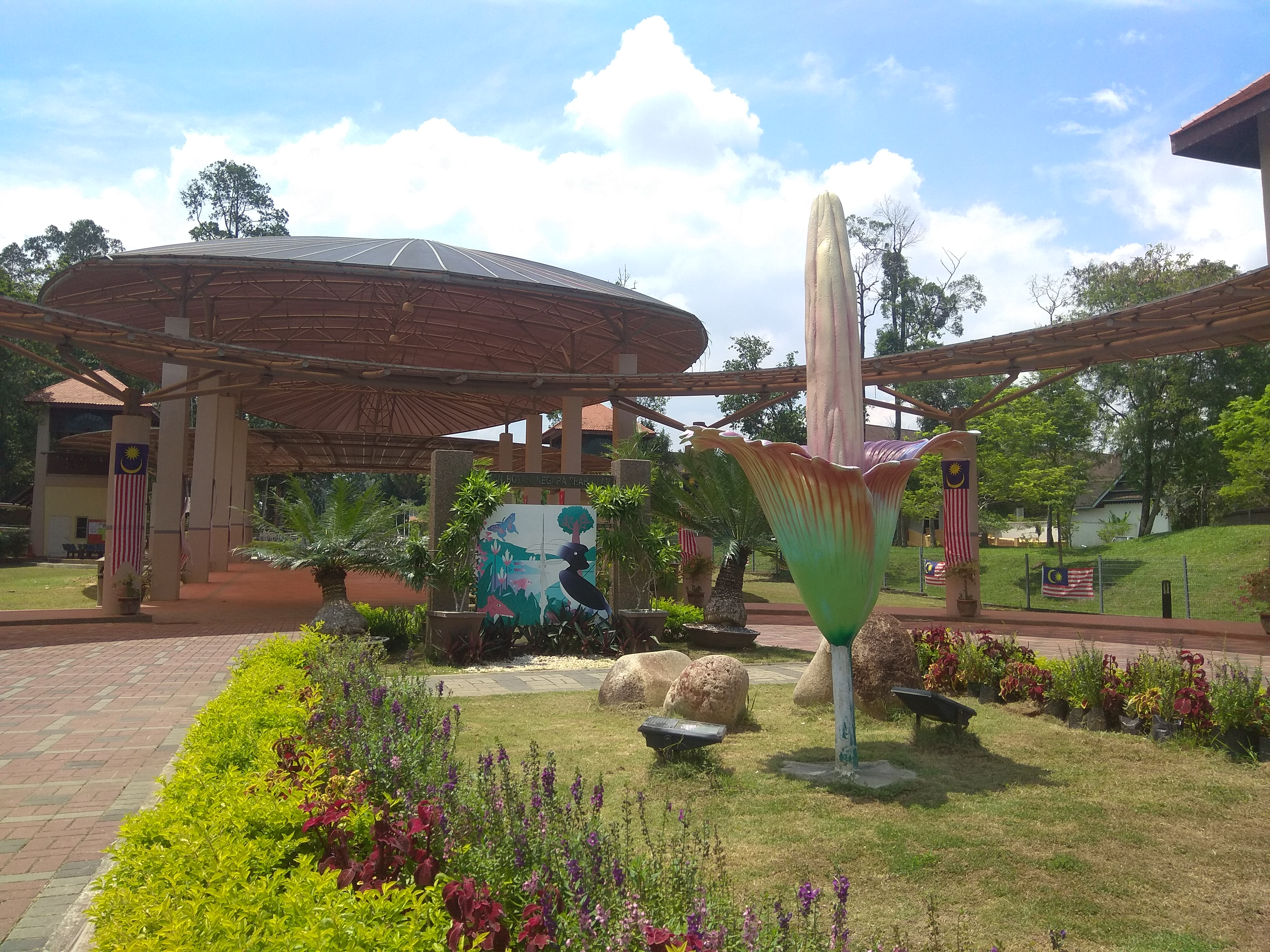 Titan Arum is the symbol of TBNSA, the sculpture is located at Anjung Utama TBNSA.